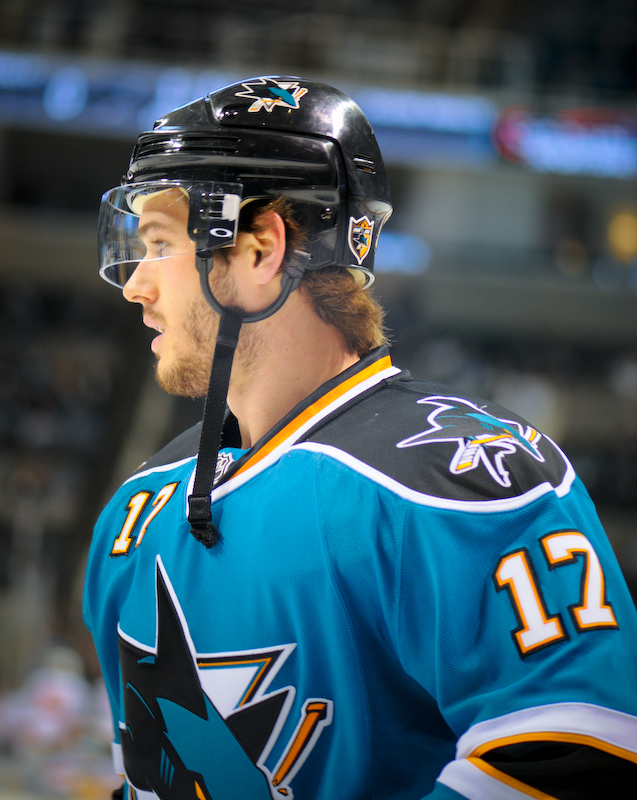 Torrey Mitchell warming up before the game.